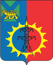 Pozharsky rayon (Primorsky kray), old coat of arms (2000-2009)